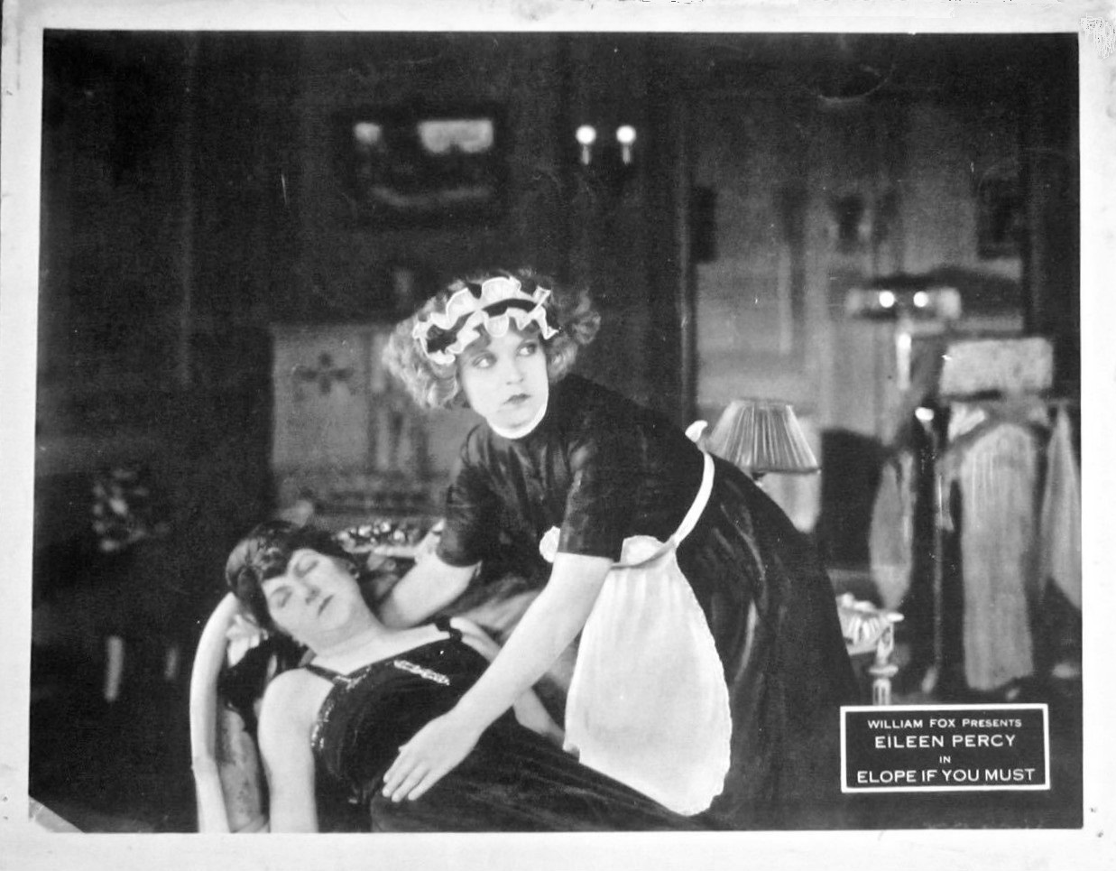 Lobby card for the American comedy film Elope If You Must (1922) with Mary Huntress (? – 1933) and Eileen Percy.